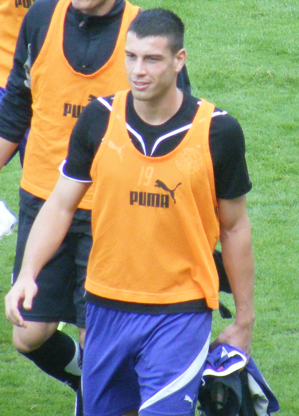 Tamás Vaskó Hungarian football player